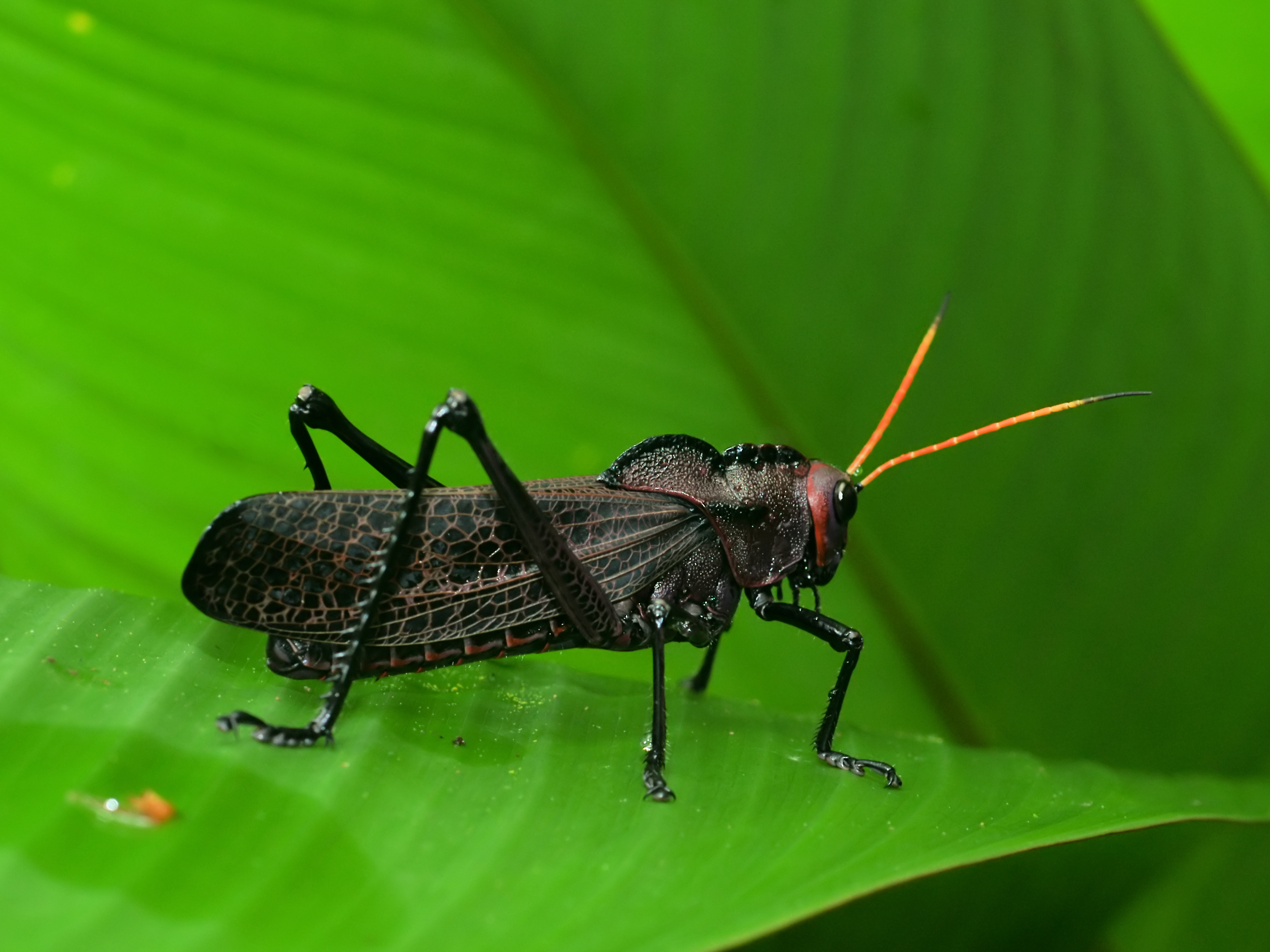 A lubber grasshopper at La Selva Biological Station, near Puerto Vieja de Sarapiqui, Costa Rica